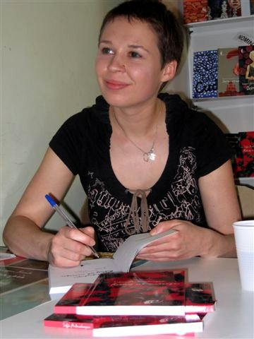 Sofia Andrukhovych (b. 1982) Ukrainian writer